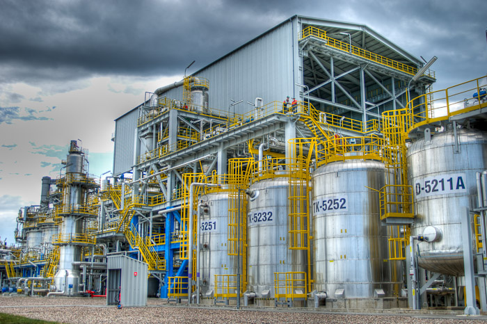 ORLEN’s PX/PTA complex in Włocławek